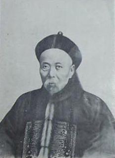 Wang Zanlun